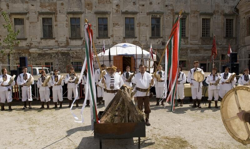 Group of taltoses of the Hungarian Native Faith holding a ritual.